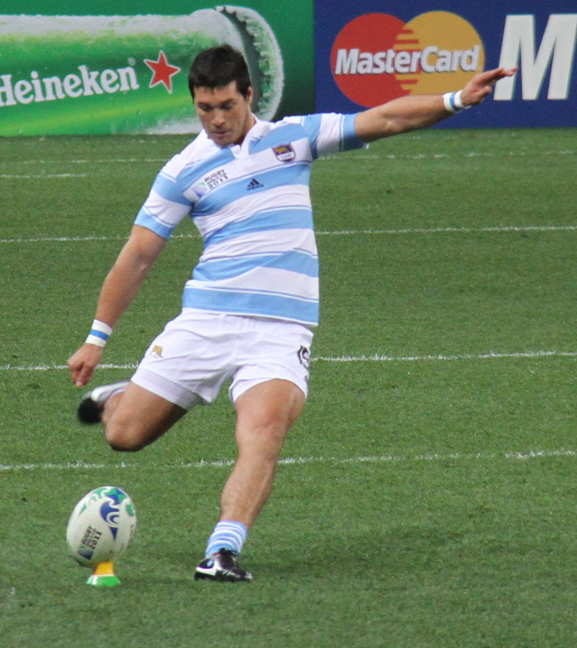 Argentinian rugby union player Martín Rodríguez during 2011 Rugby World Cup match against England.